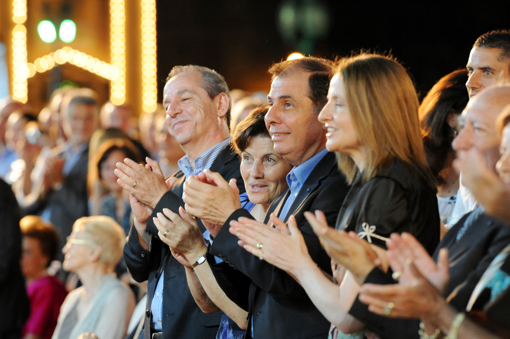 Prime Minister Lawrence Gonzi and wife Kate, and President George Abela and wife Margaret